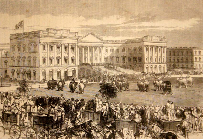 Government House, Calcutta. A depiction of the arrival of the Duke of Edinburgh in 1870